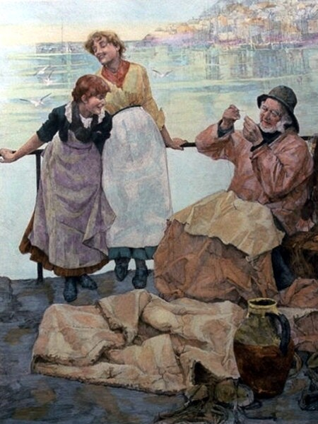 Eyes And No Eyes